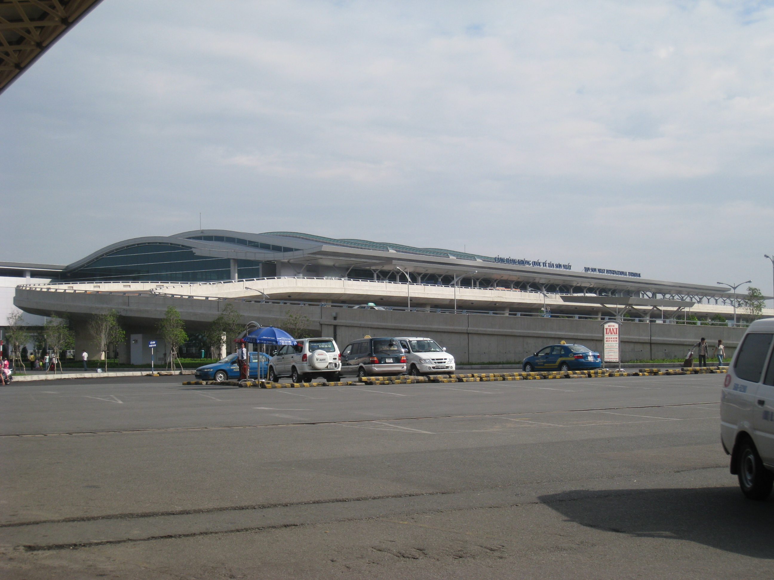 Front view of Tan Son Nhat Airport Int'l Terminal